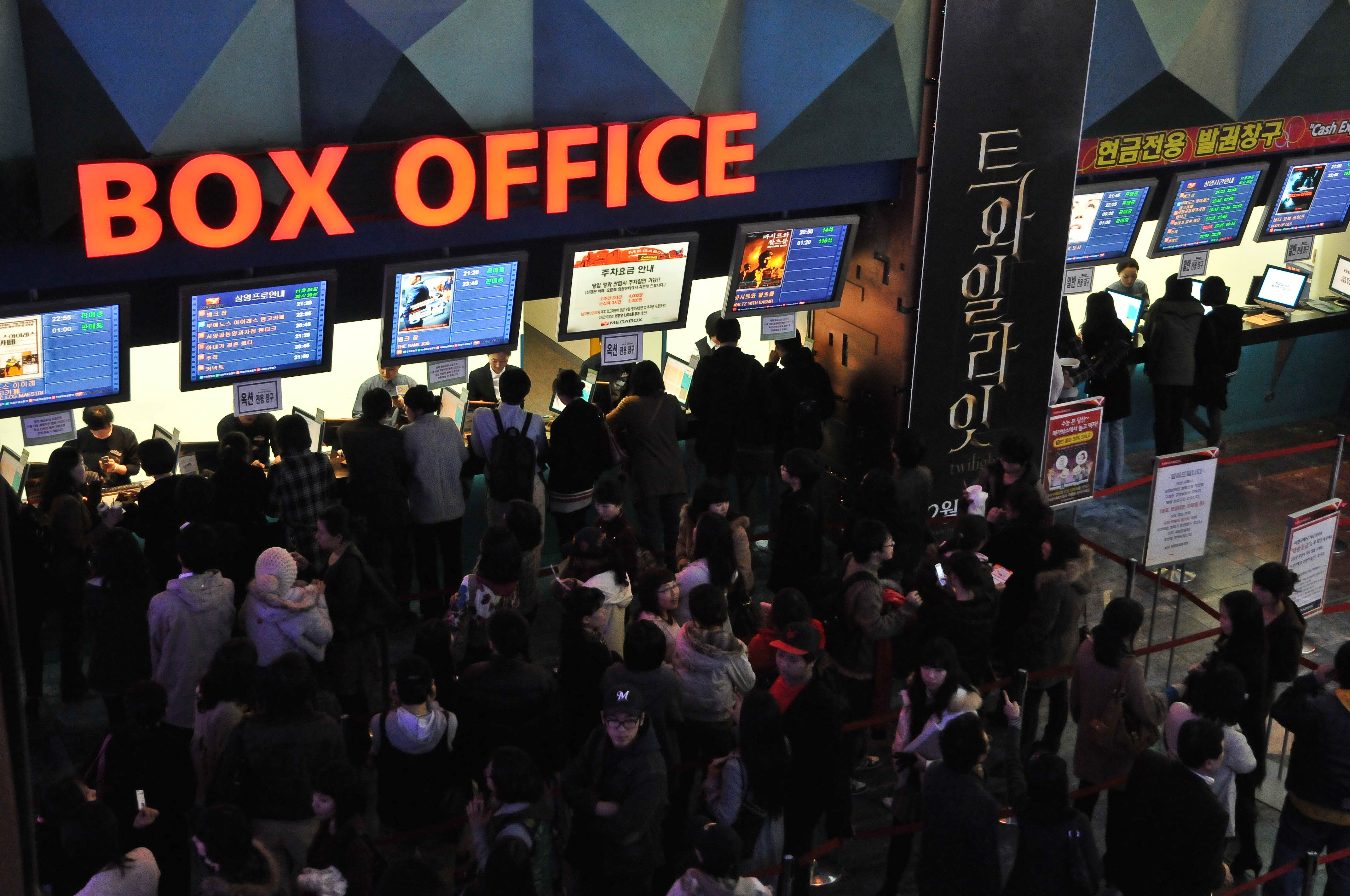 Megabox Cineplex at the COEX Mall in Seoul, South Korea